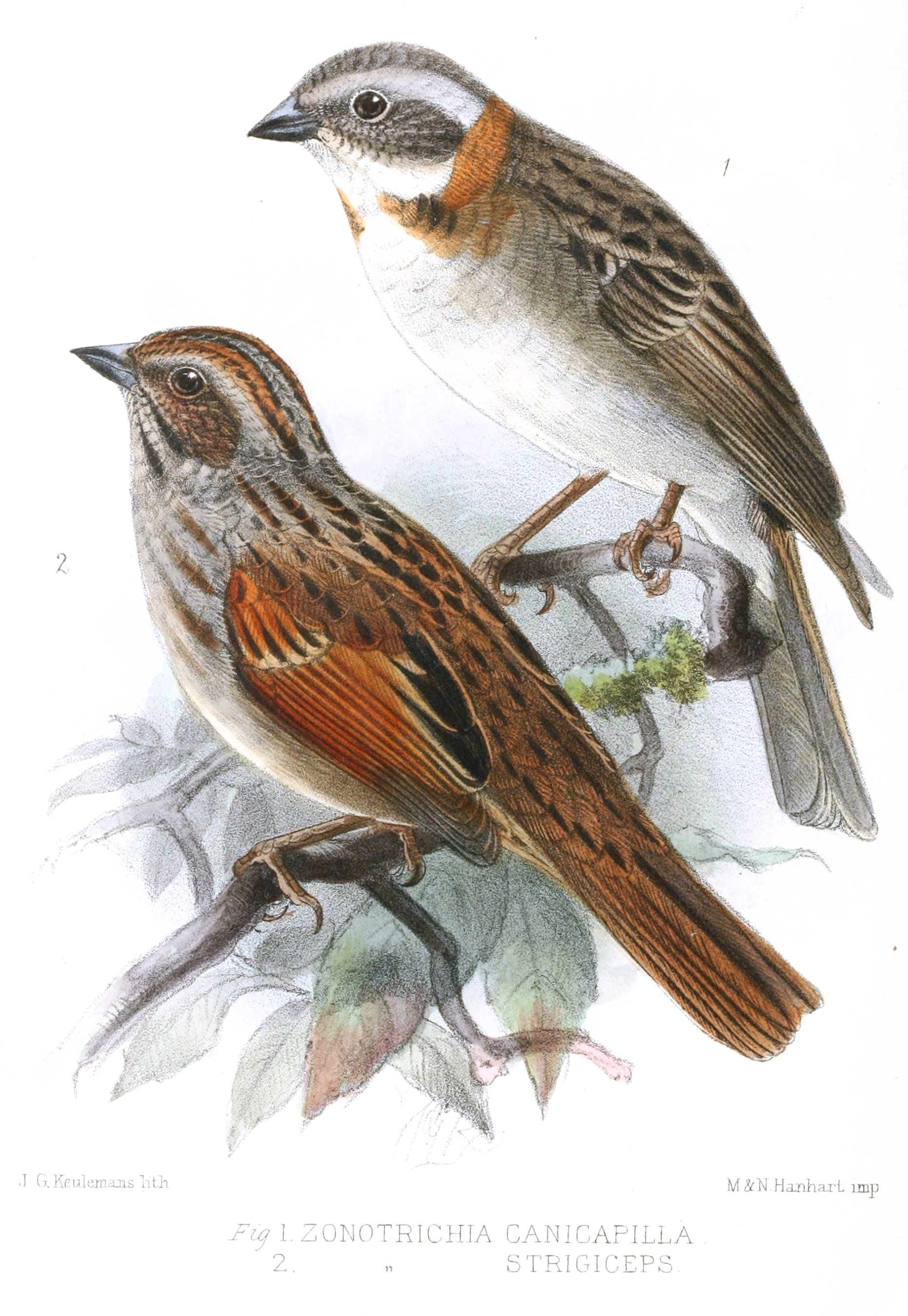 « Zonotrichia canicapilla » = Zonotrichia capensis australis (Subspecies of Rufous-collared Sparrow) « Zonotrichia strigiceps » = Rhynchospiza strigiceps (Stripe-capped Sparrow)